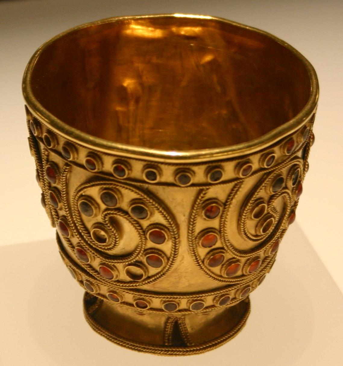 With thanks to the Georgian National Museum for allowing photography